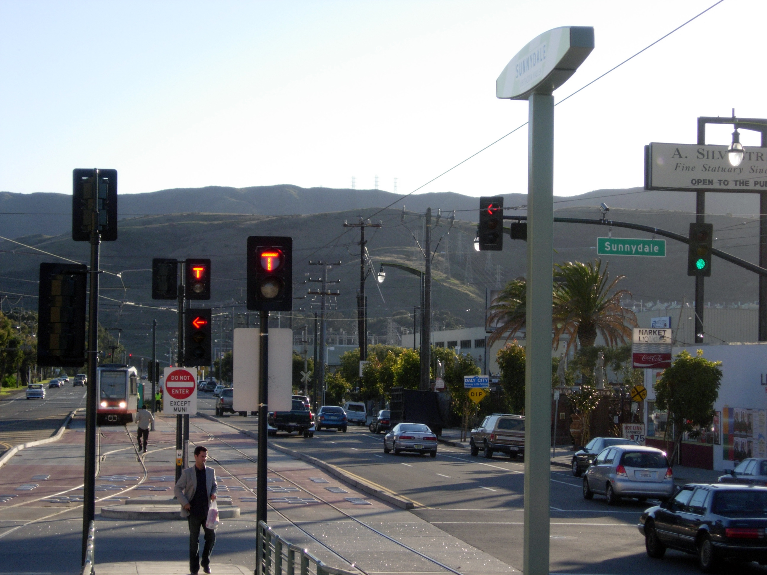 Sunnydale Station is the southern terminus of the T Third Street line in San Francisco as of 2012.